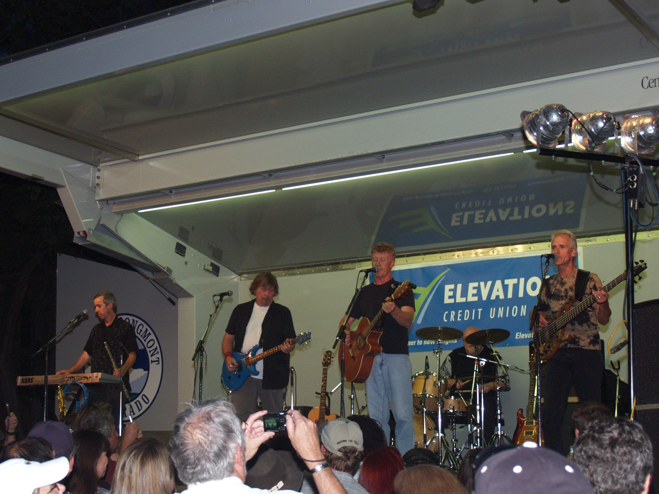 Firefall at a performance in Longmont, Colorado, USA.